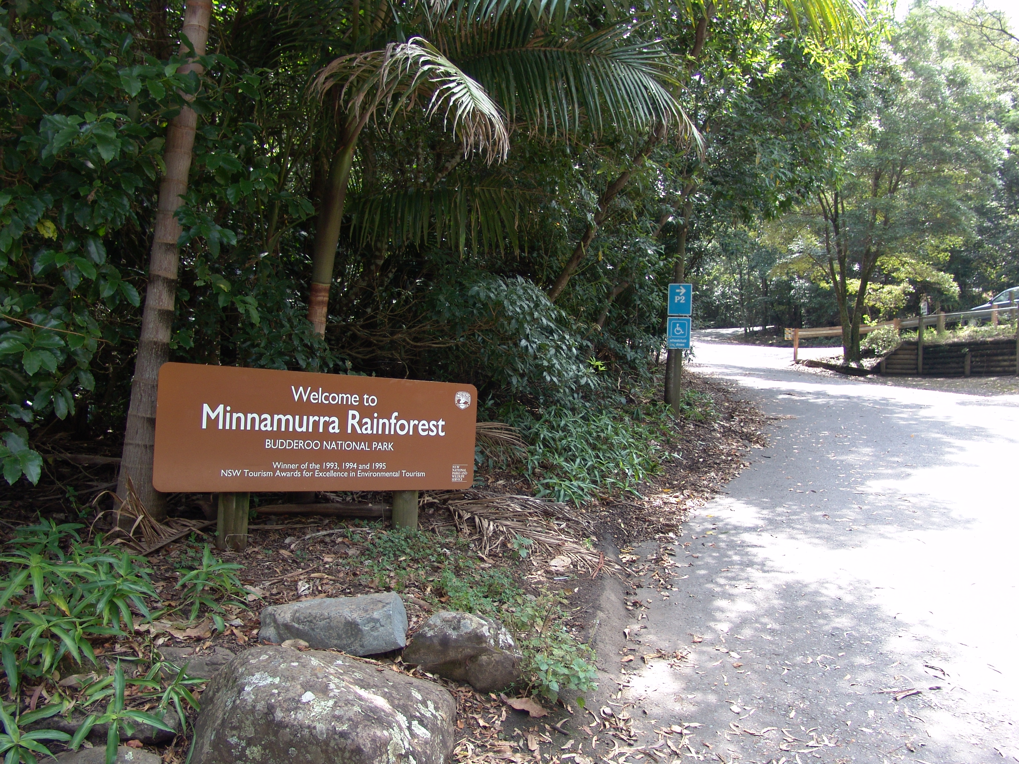 Minnamurra Rainforest entrance and carpark, Budderoo National Park